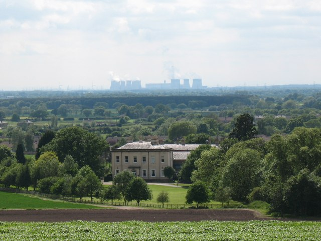 Holme Hall from Church Hill, Holme-on-Spalding-Moor, East Riding of Yorkshire, England.Holme Hall dates from the early 18th century but has been much altered since, particularly in 1840. In this view, the house lines up nicely with the distant cooling towers and chimney of Drax power station.